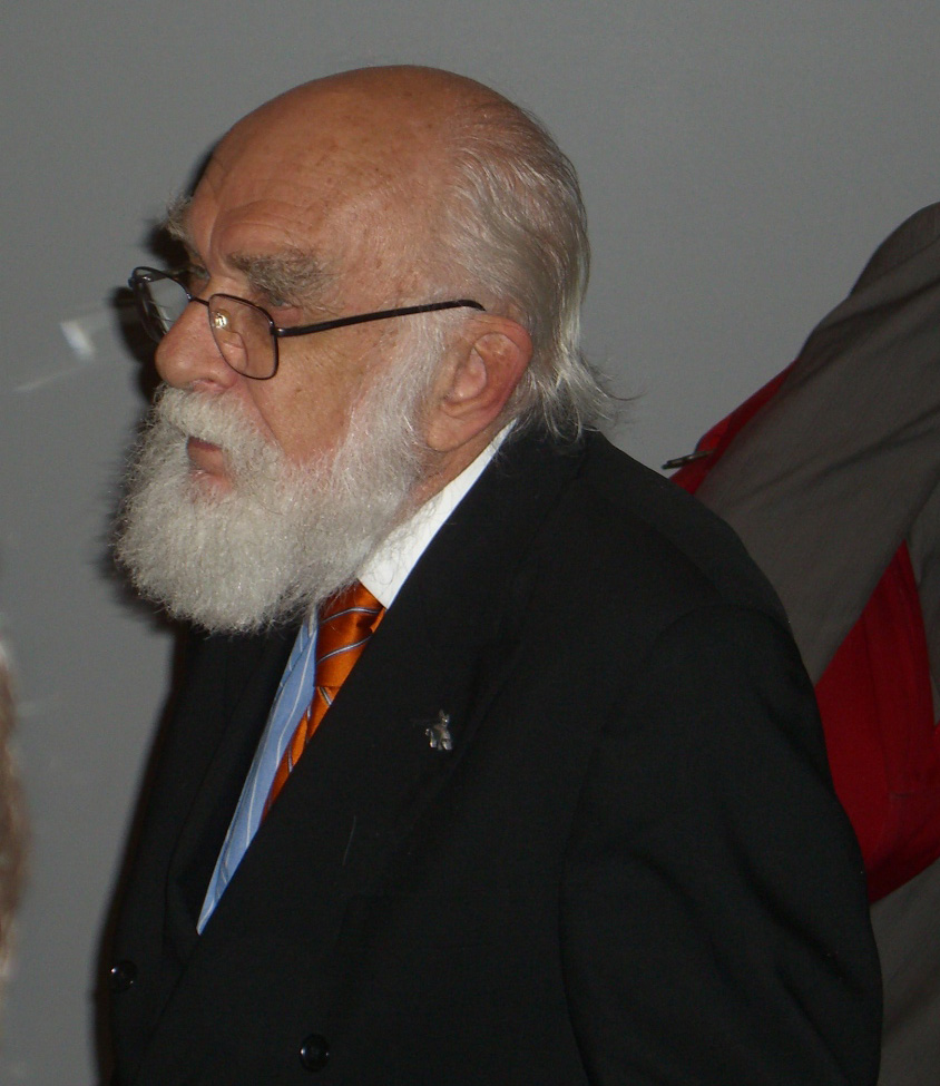 Skepticism educator James Randi at a lecture at Rockefeller University, on October 10, 2008.